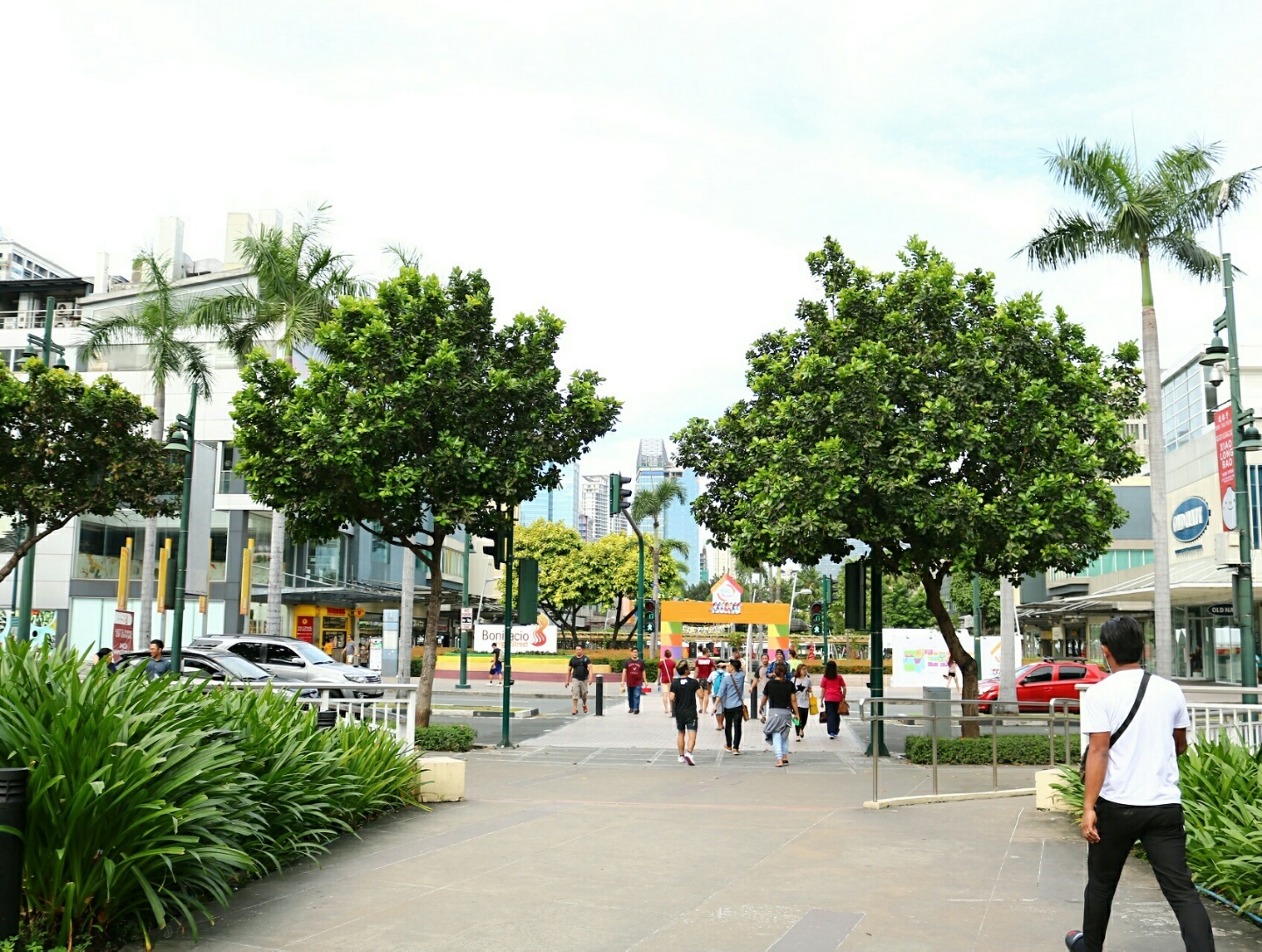 Highstreet_Front